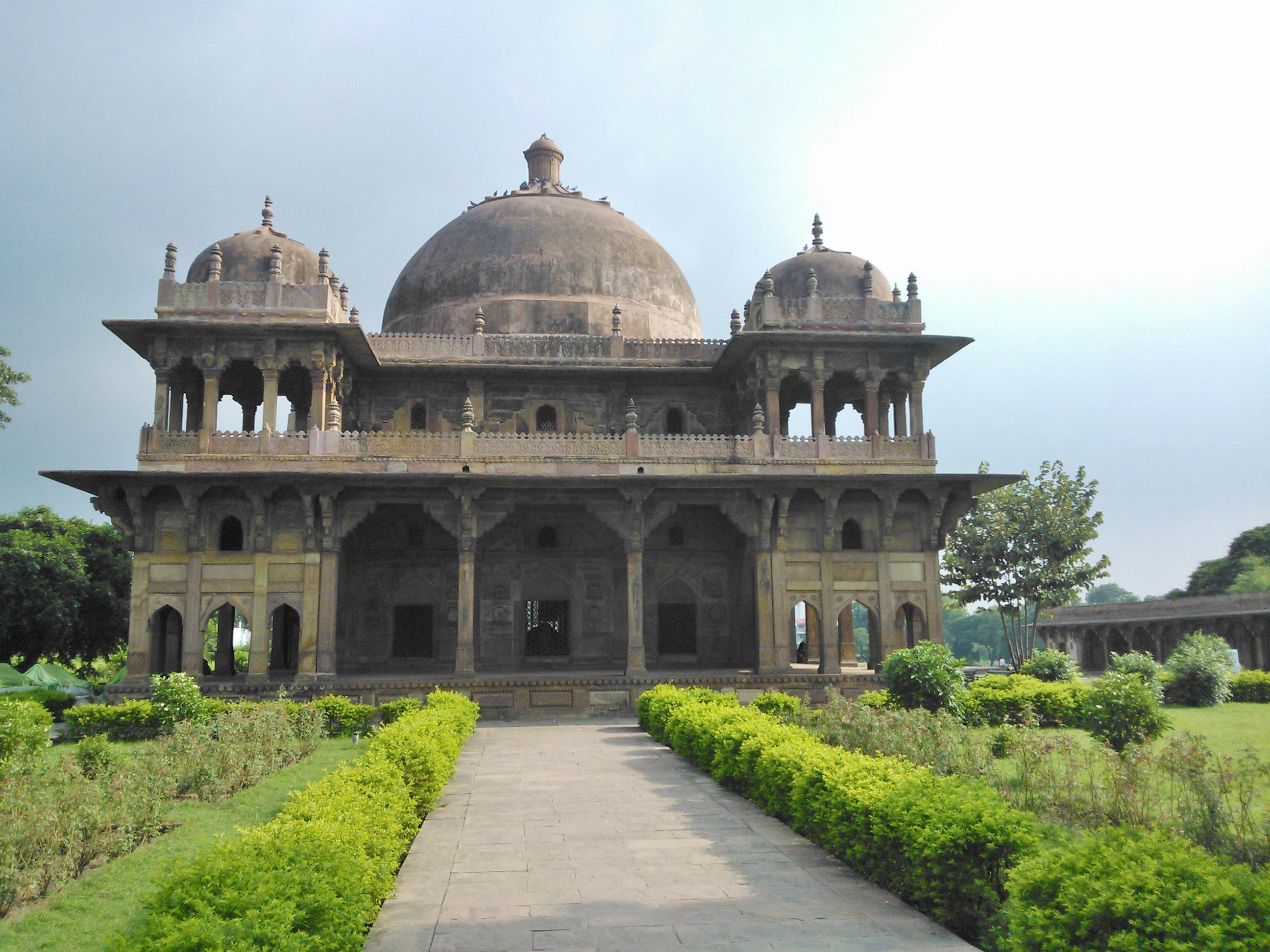 Tomb of Shah Makhadum Daulat Maneri and Ibrahim Khan